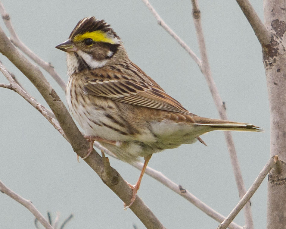 Yellow-browed Bunting (Emberiza chrysophrys) photographed by Devon Pike on Eocheong Island, Korea in May 2012.